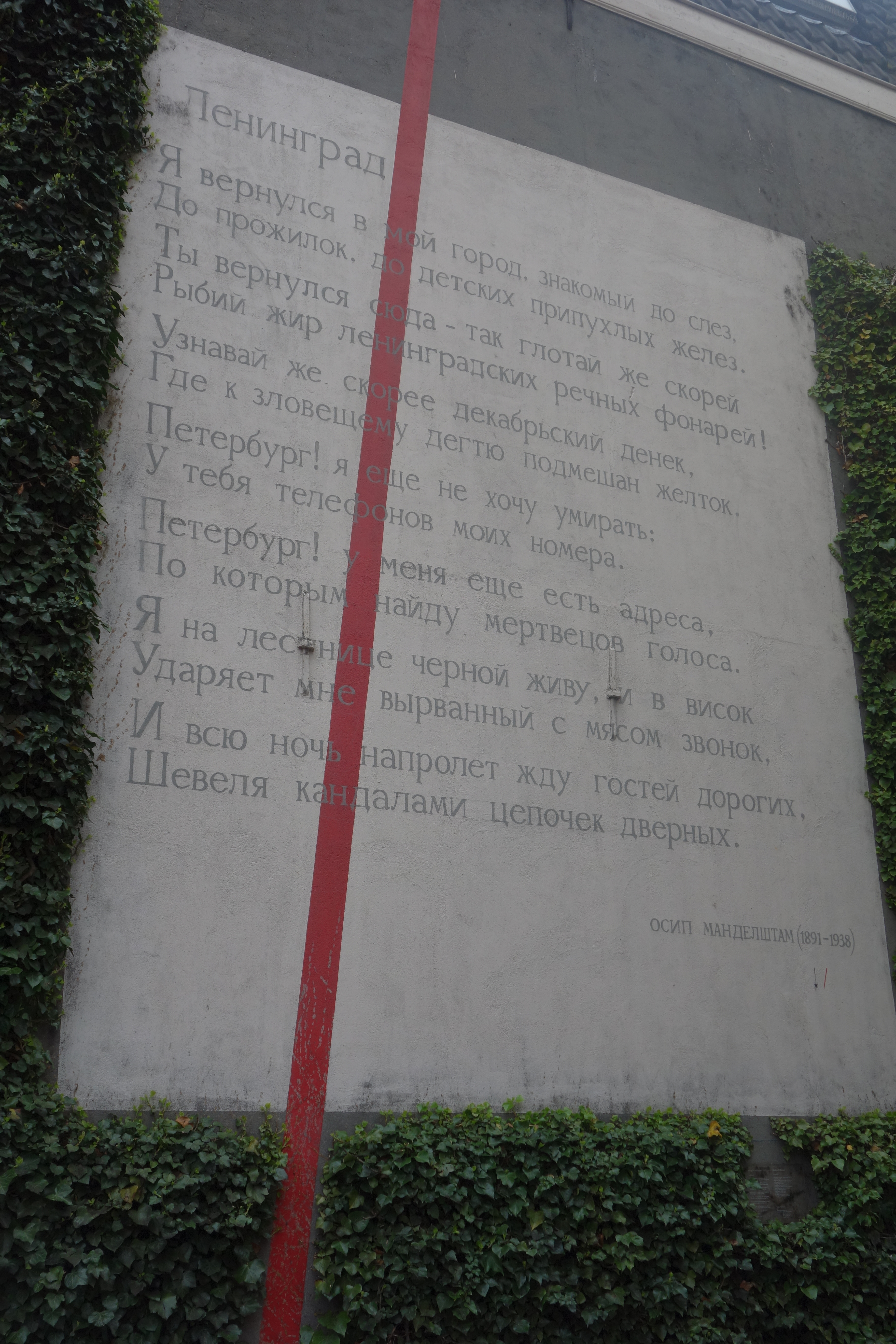 Wall poem at Haagweg, Leiden (the Netherlands): Leningrad by Osip Mandelstam